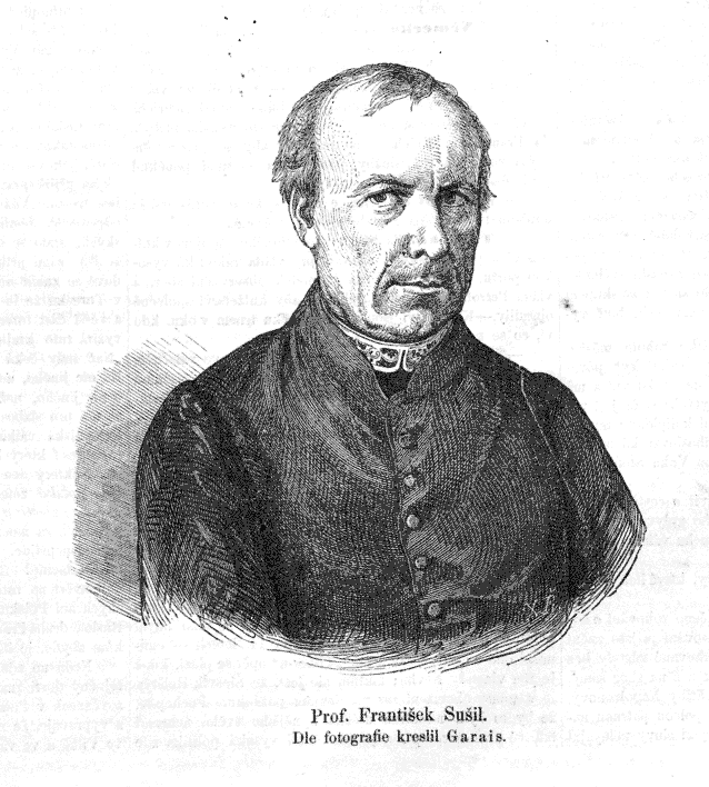 Portrait of František Sušil (1804 - 1868), Moravian etnographist, collector and publisher of folk songs